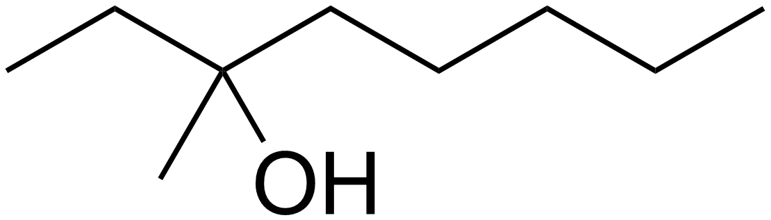 Chemical structure of 3-Methyl-3-octanol (Amylethylmethylcarbinol; 2-Ethyl-2-heptanol; 3-Methyloctan-3-ol)